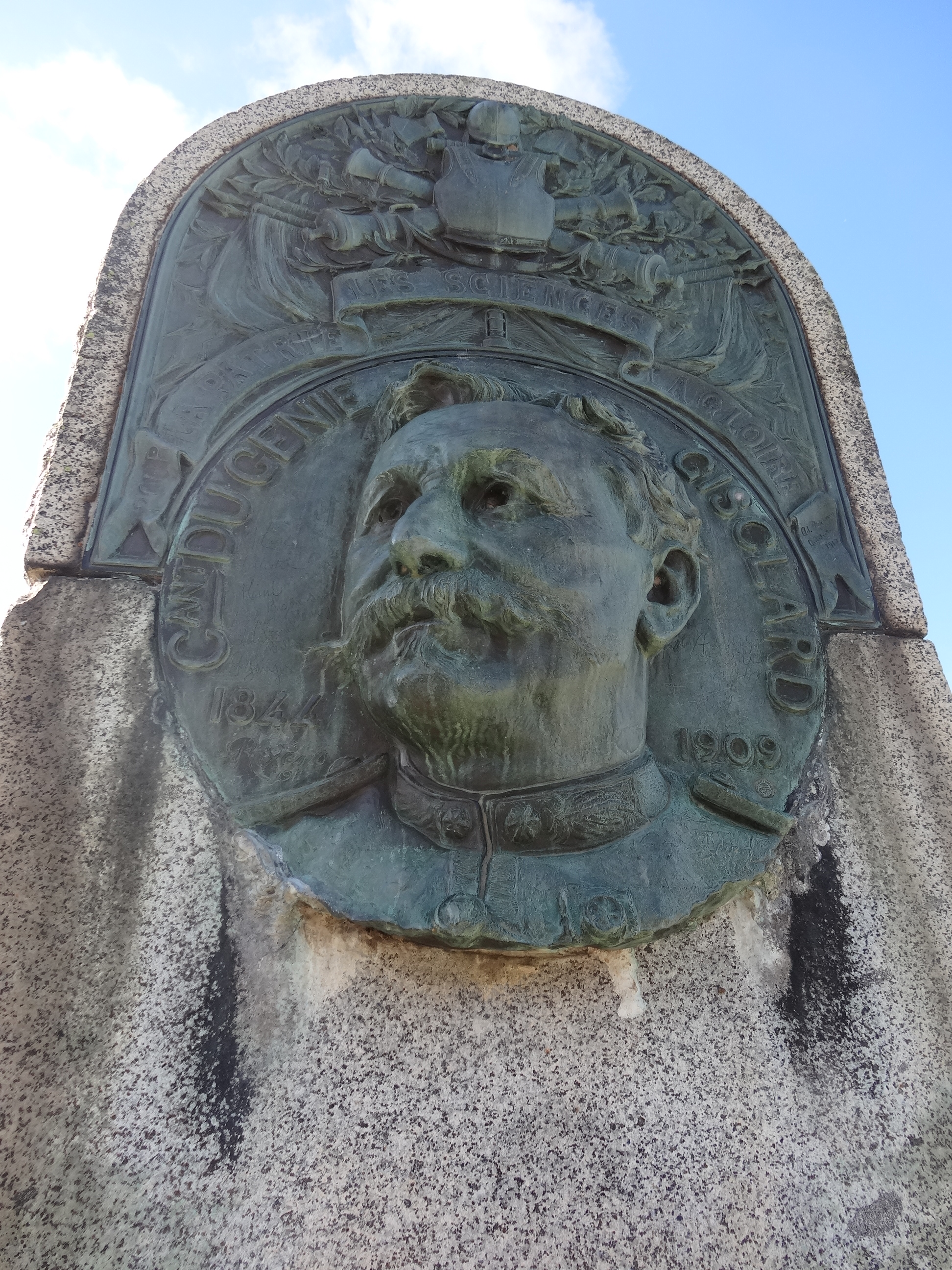 Viewpoint above Pont Gisclard (Pyrénées-Orientales)